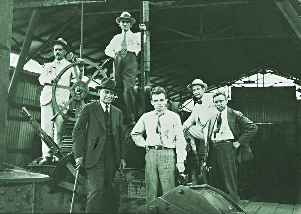 Monteiro Lobato during research for oil extraction.